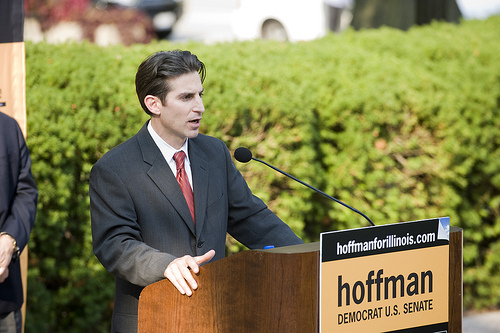 American politician David H. Hoffman announcing his campaign for the United States Senate in Springfield, Illinois.